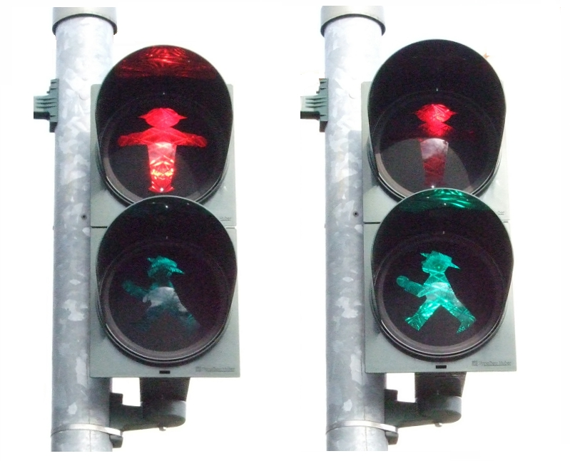 Ampelmännchen (East German variation) in Chemnitz, Germany